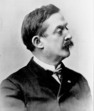 Credited to the U.S. Senate Historical Office